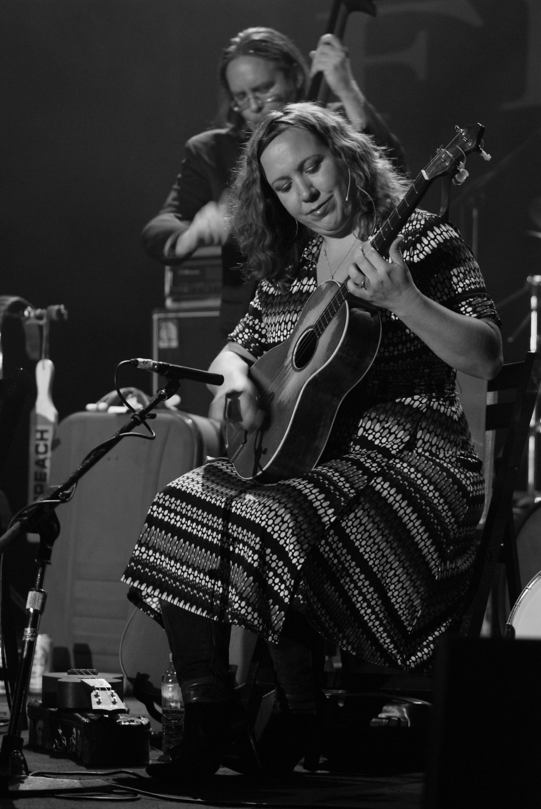 Christina Marrs from Asylum Street Spankers during 27. edycji Rawy Blues Festival